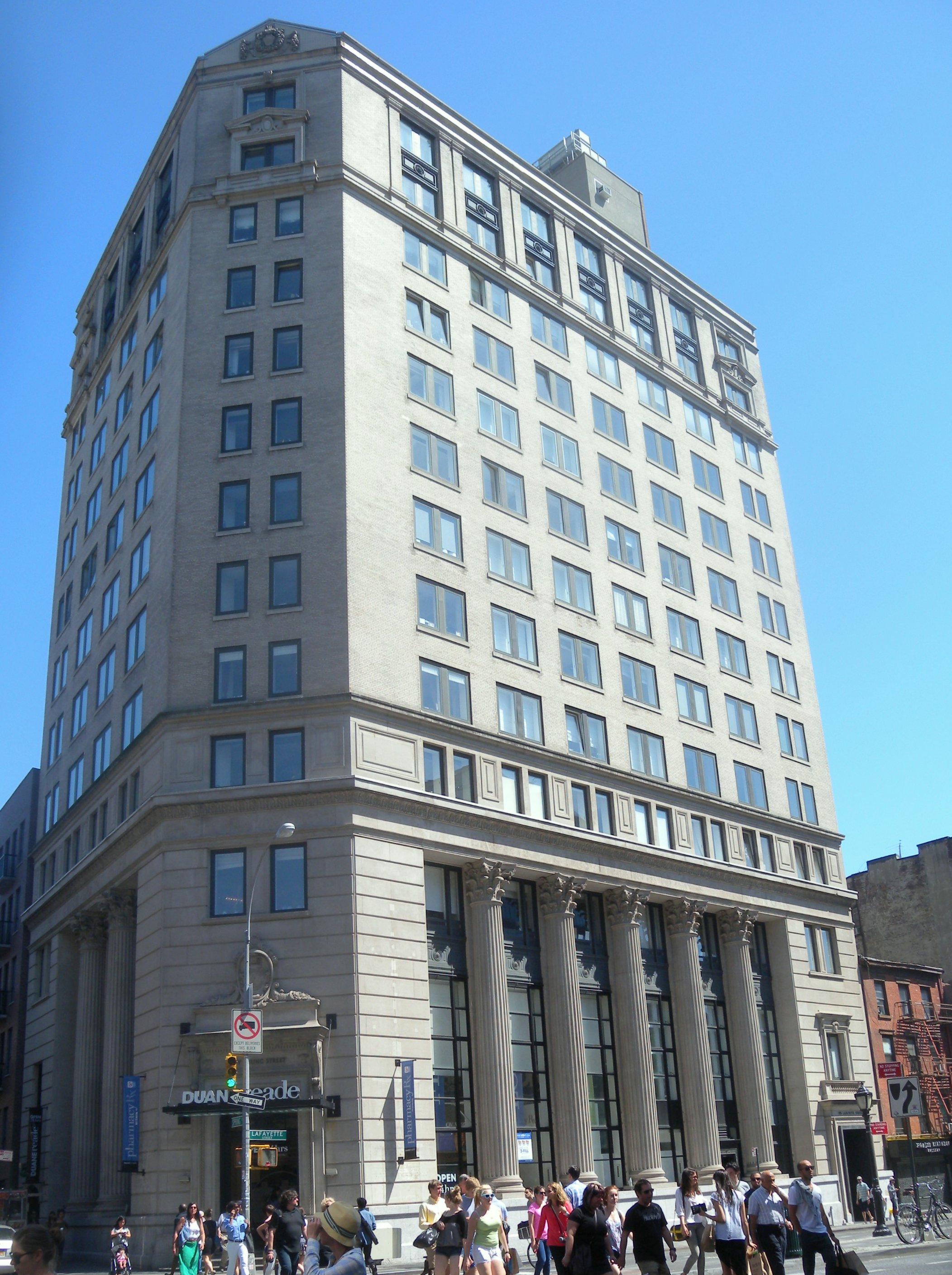 Looking southeast across Spring and Lafayette Streets at Cass Gilbert bank, also addressed as 225 Lafayette, once HQ of EC Comics (publisher of Mad Magazine), now condo apartments above a drugstore, on a sunny afternoon.